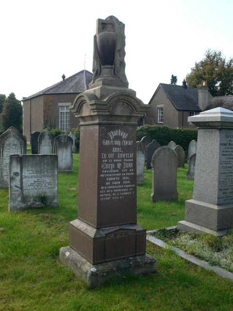 Memorial to Emrys ap Iwan The memorial stands in the cemetery at Rhewl. Emrys ap Iwan. He was born Robert Ambrose Jones in Abergele, Conwy (then in Denbighshire). He was a literary critic and writer on politics and religion. He is often seen as one of the most important forerunners of modern Welsh nationalism. He was ordained a minister in 1884 and then served as a pastor to several churches in Denbighshire, including Rhewl and Ruthin, for the rest of his life. He was a fervent advocate of the Welsh language and of Welsh nationalism and believed in self-government for Wales. He was a prolific writer of newspaper articles in Welsh, three volumes of which were later published, as were two volumes of his sermons.